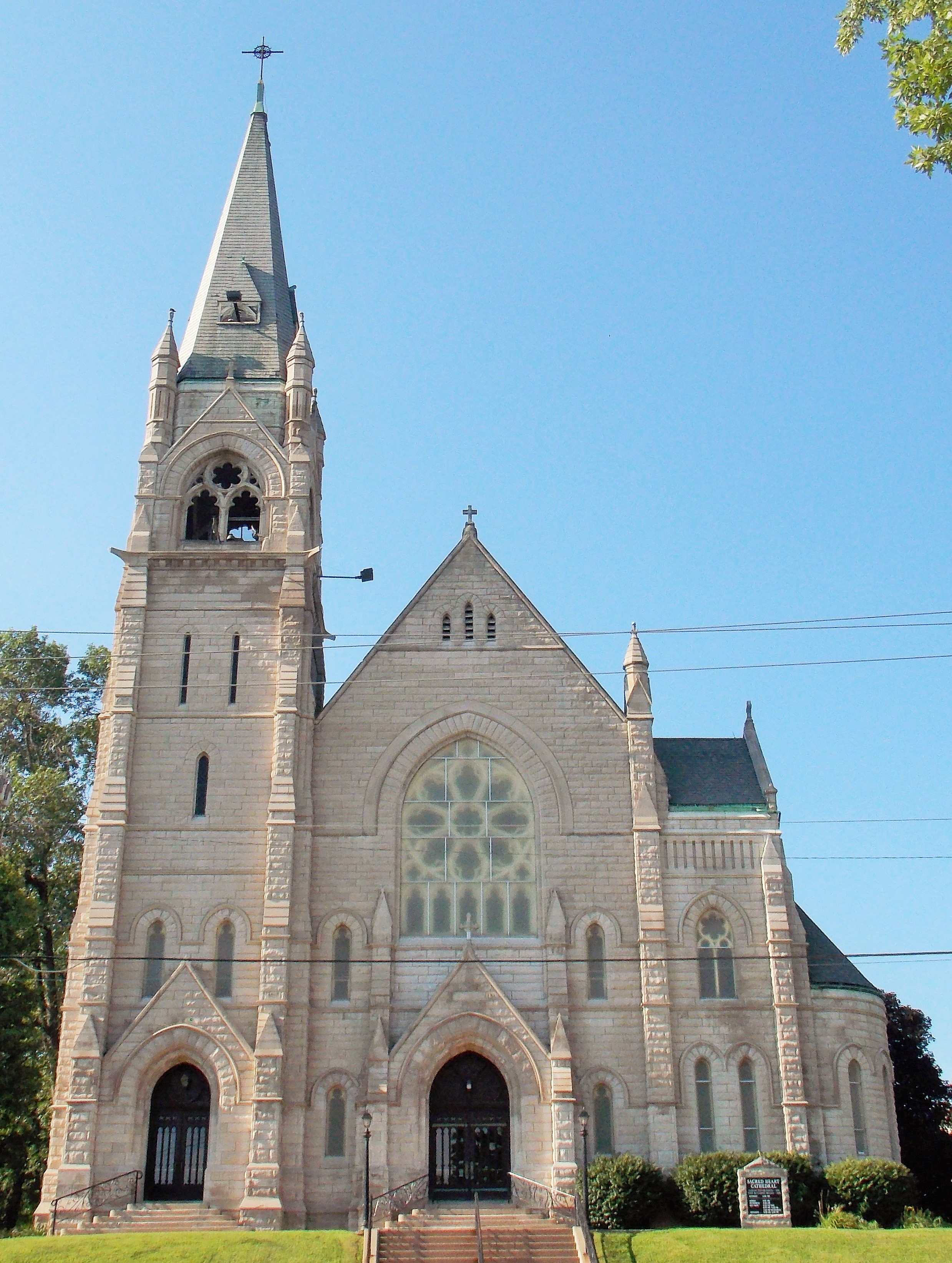 Sacred Heart Cathedral in Davenport, Iowa is listed on the National Register of Historic Places.